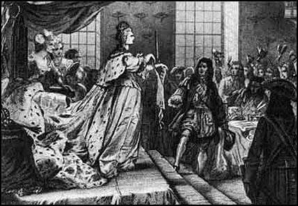 Anna of Russia rips Conditions